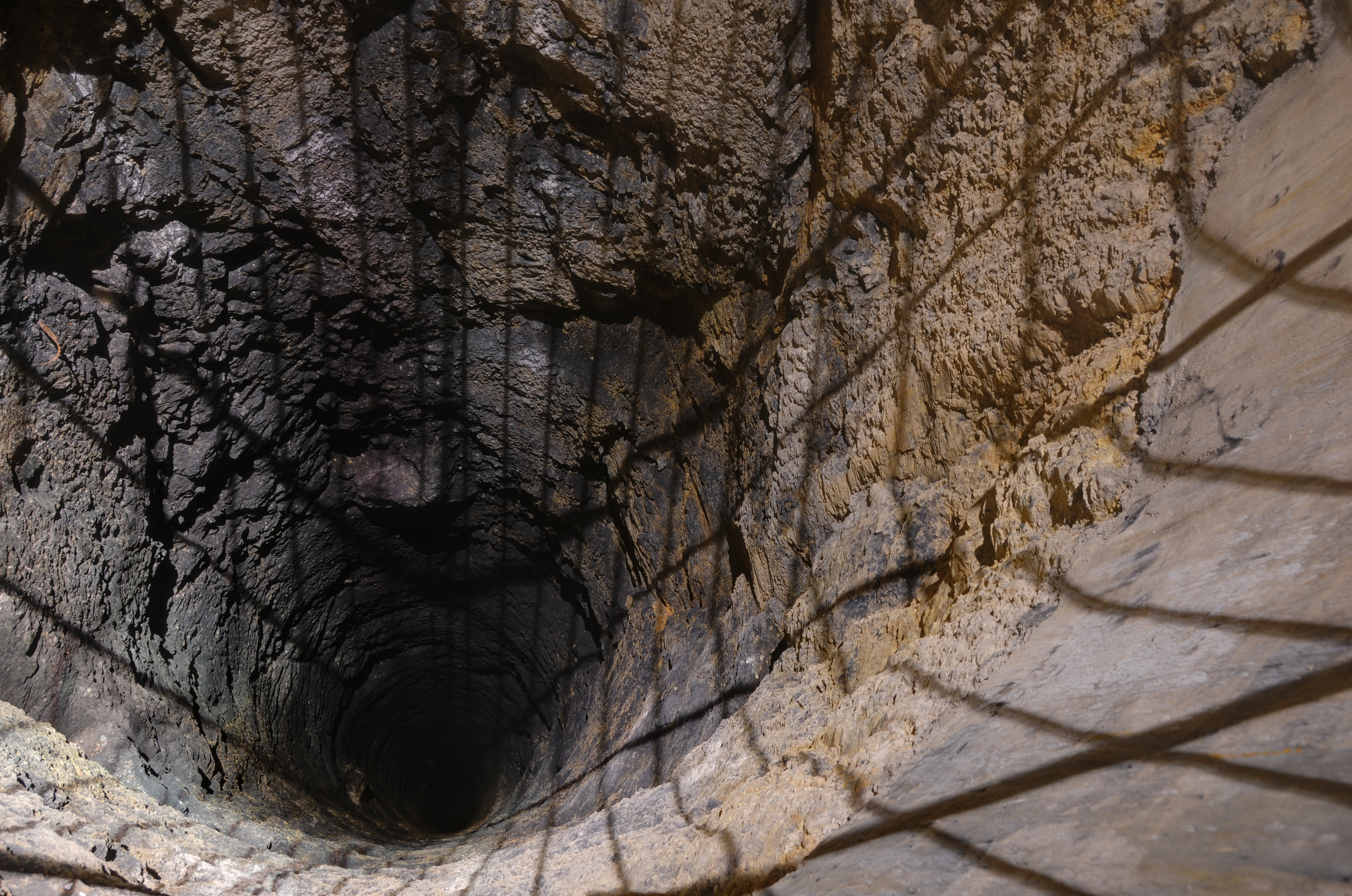 This photograph was taken with a Nikon D300 Fort de Joux : le puits (HDR).